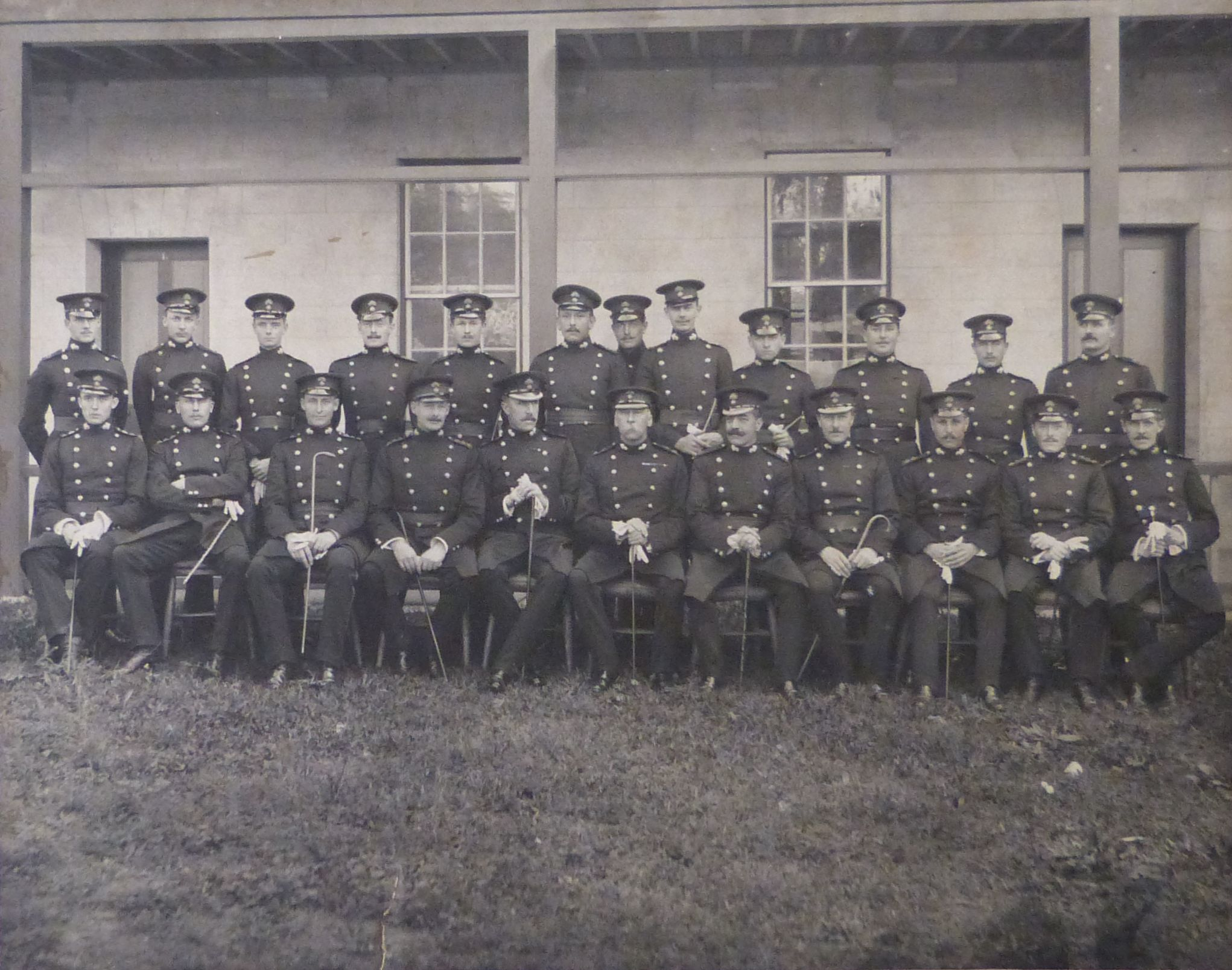 Officers of the 3rd Battalion The Royal Fusiliers (City of London Regiment) in Bermuda in 1905. The battalion was part of the Bermuda Garrison from December, 1903, until 13 October, 1905.